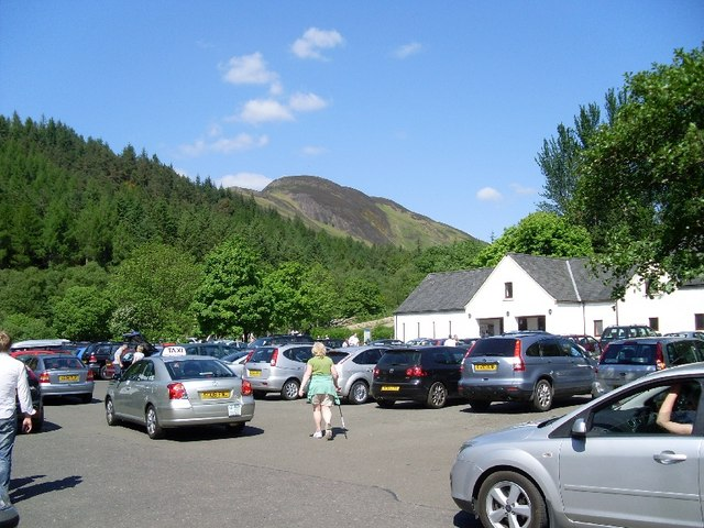 Car park and visitor centre, Balmaha With a fine view to the Conic Hill in the background.